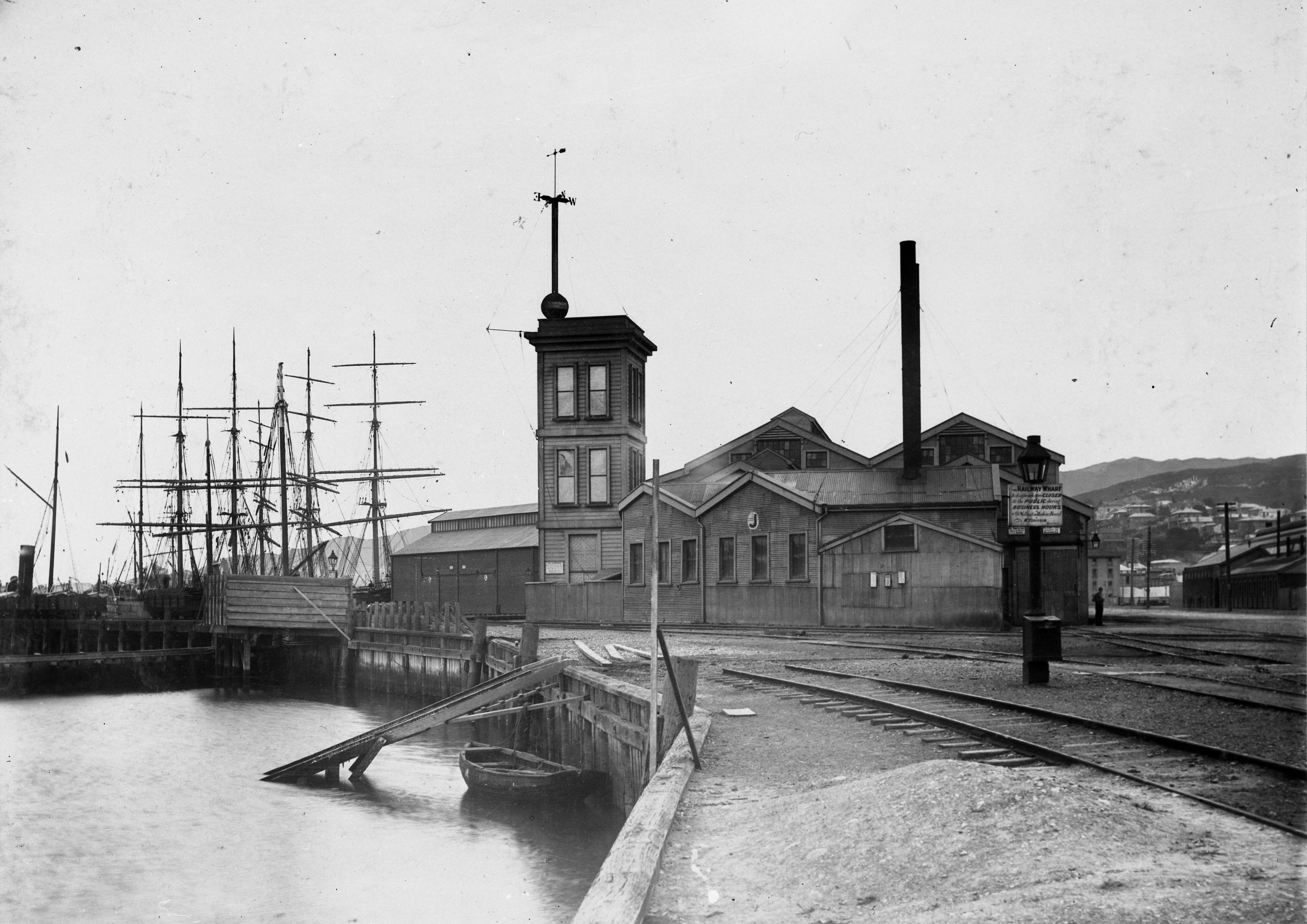 Wellington Waterfront Shed J Wool store showing Accumulator tower on approach to railway wharf near Waterloo Quay prior to tower burning down c.1909 timeball on mast on tower.